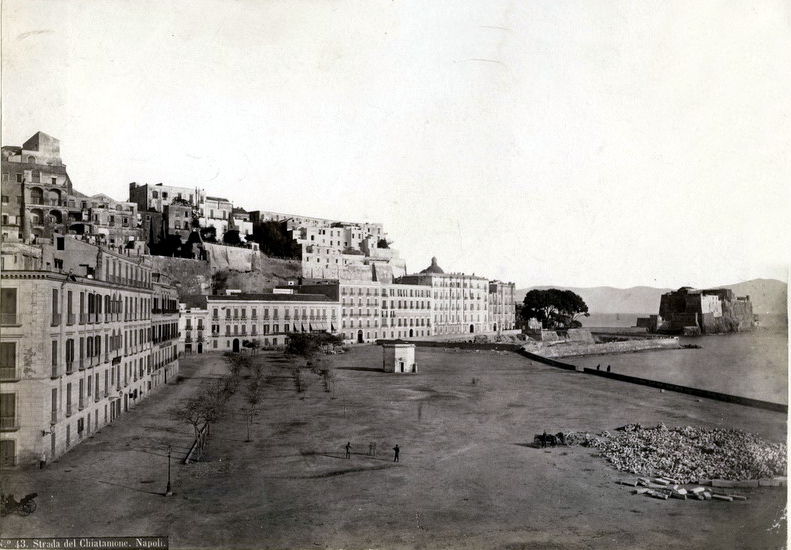 Roberto Rive (18?-1889), "Chiatamone street, Naples". Catalogue # 43.